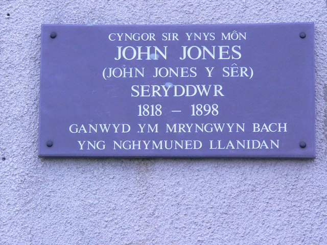 Memorial to an Astronomer, John Jones Y Sêr. A slate plaque memorial placed on the old Chapel, Brynsiencyn, and dedicated to John Jones (John Jones the Stars), Astonomer, 1818 - 1898, born at Bryngwyn Bach in the community of Llanidan.